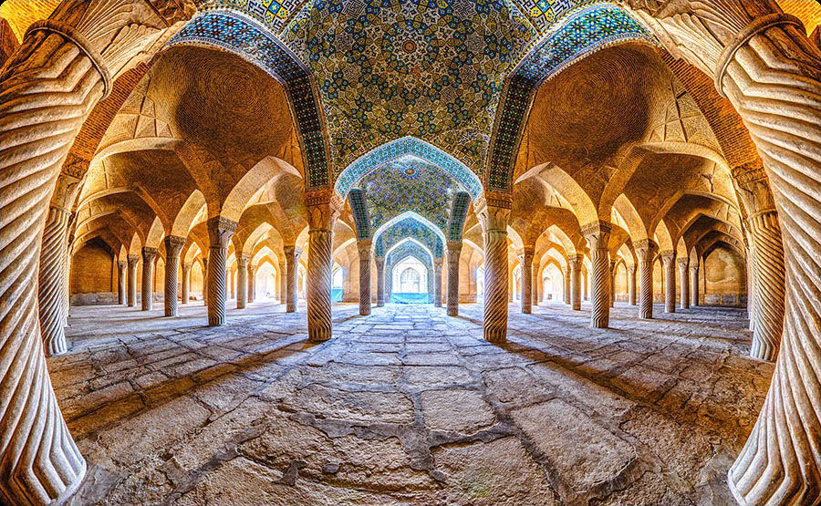 Panorama of Vakil Mosque in Shiraz.